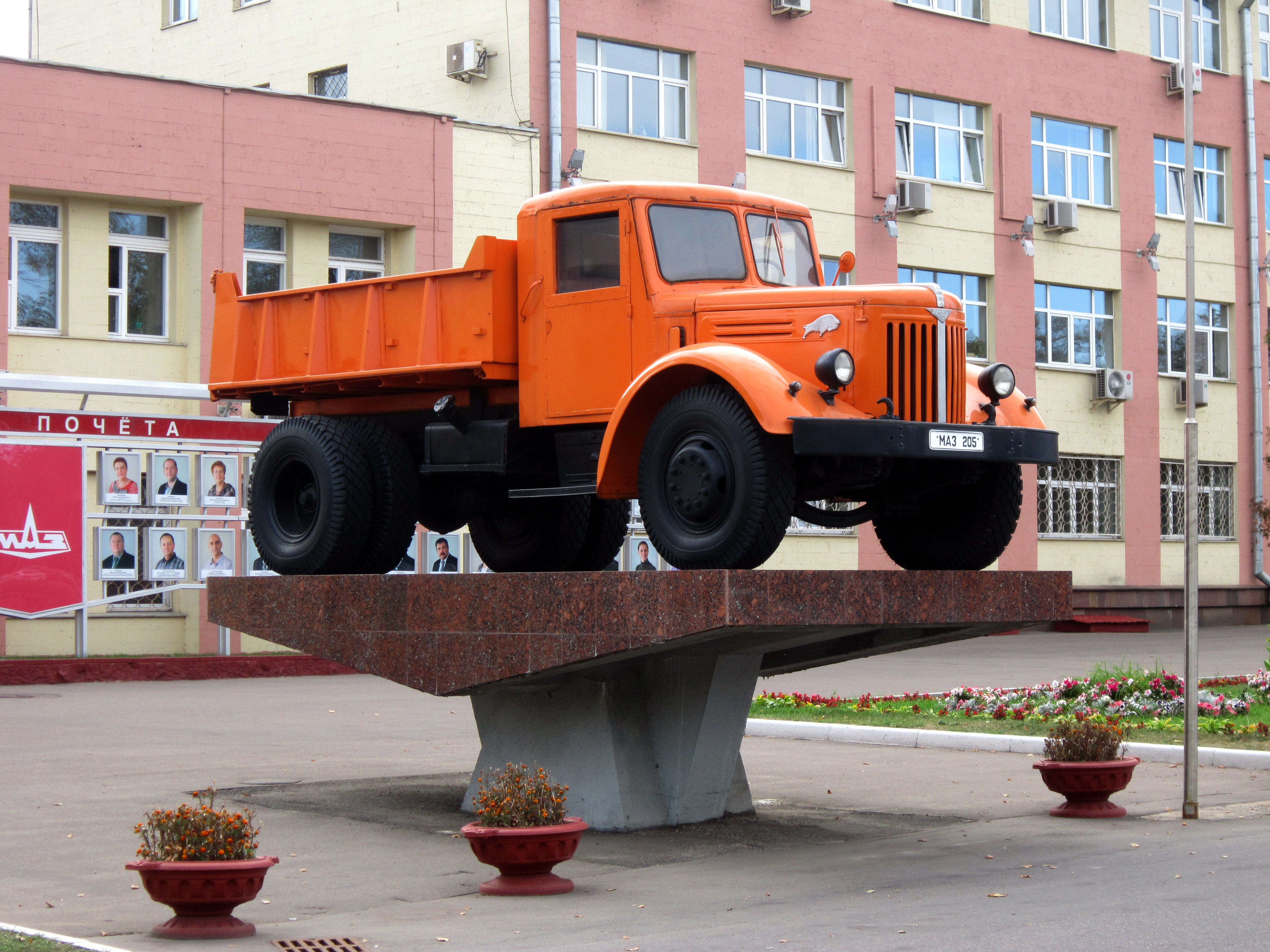 MAZ-205